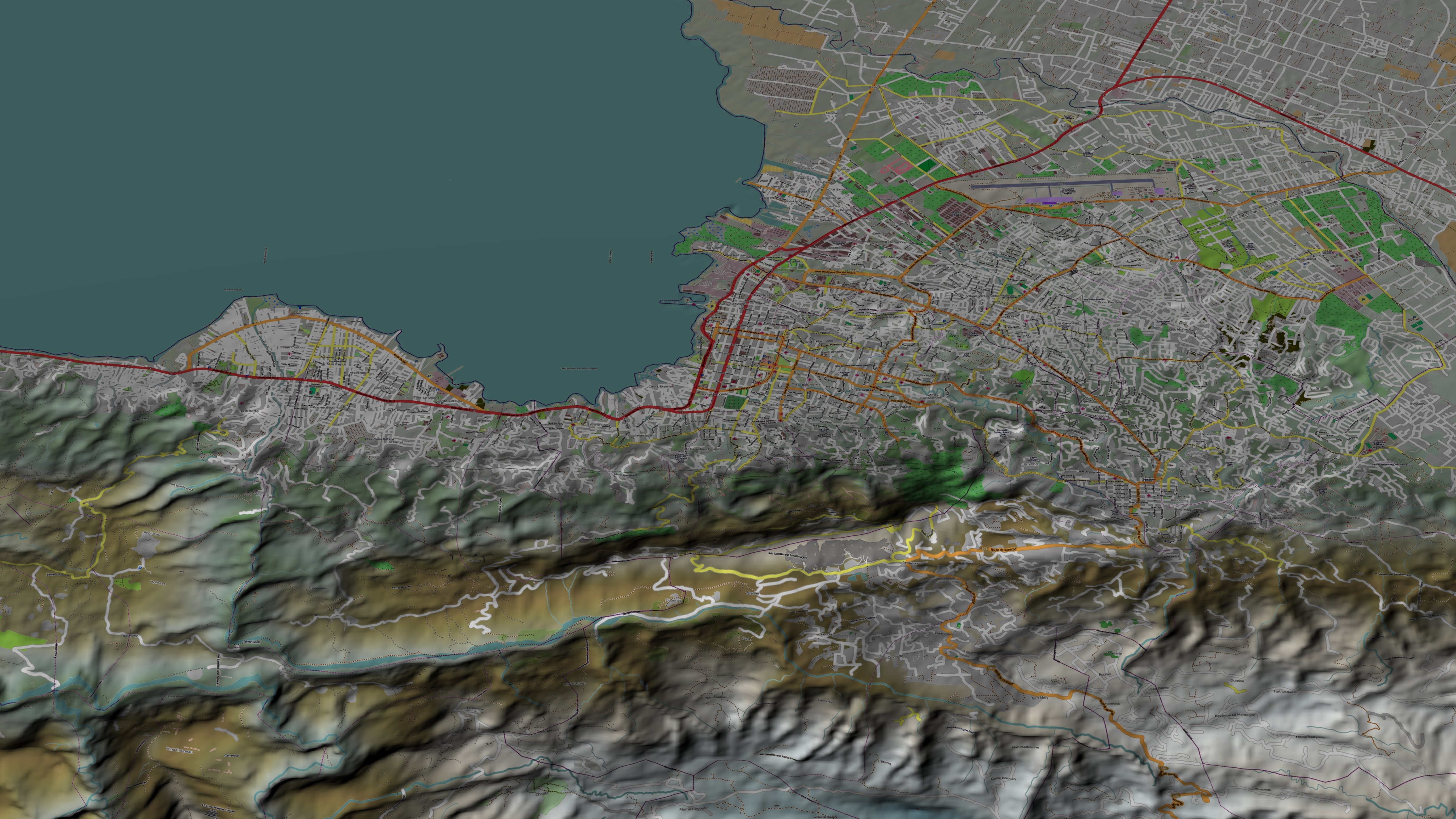 Port-au-Prince, Haiti, computer image generated using TruFlite